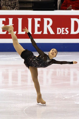 2009 World Figure Skating Championships - Kim Yuna